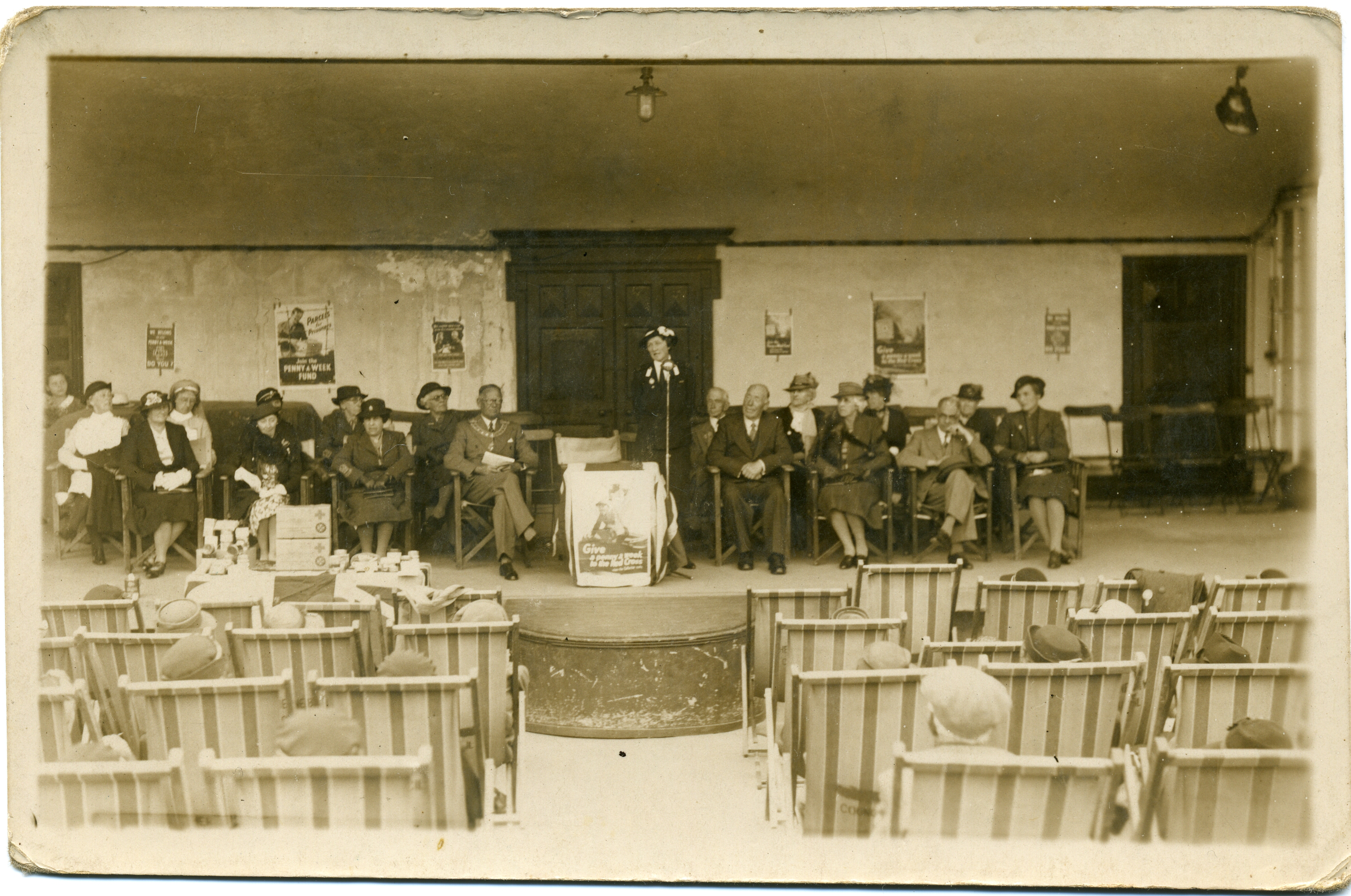 Lady Edwina Mountbatten, wife of Lord Louis Mountbatten of Burma, speaking on behalf of the Red Cross at the Central Bandstand, Herne Bay, Kent, England; in 1939. On the back is written in pencil: "Bandstand Herne Bay. Give a Penny a Week to the Red Cross. Lady Mountbatten speaking, chairman of the British Red Cross Society. Chairman of Council, Mr Parker" Points of interest Although Edwina Mountbatten's WW2 work on behalf of the Red Cross has been publicised, there is apparently no mention of WWII on the Red Cross posters here - only an appeal on behalf of prisoners. The "Give a Penny a Week" fund was started on 9th September, 1939. In addition, there are small posters showing the insignia of the Joint War Organisation, a committee re-established after the outbreak of the Second World War by the Order of St John and the British Red Cross. This photograph would then post date both the start of the fund and the re-establishment of the JWO.